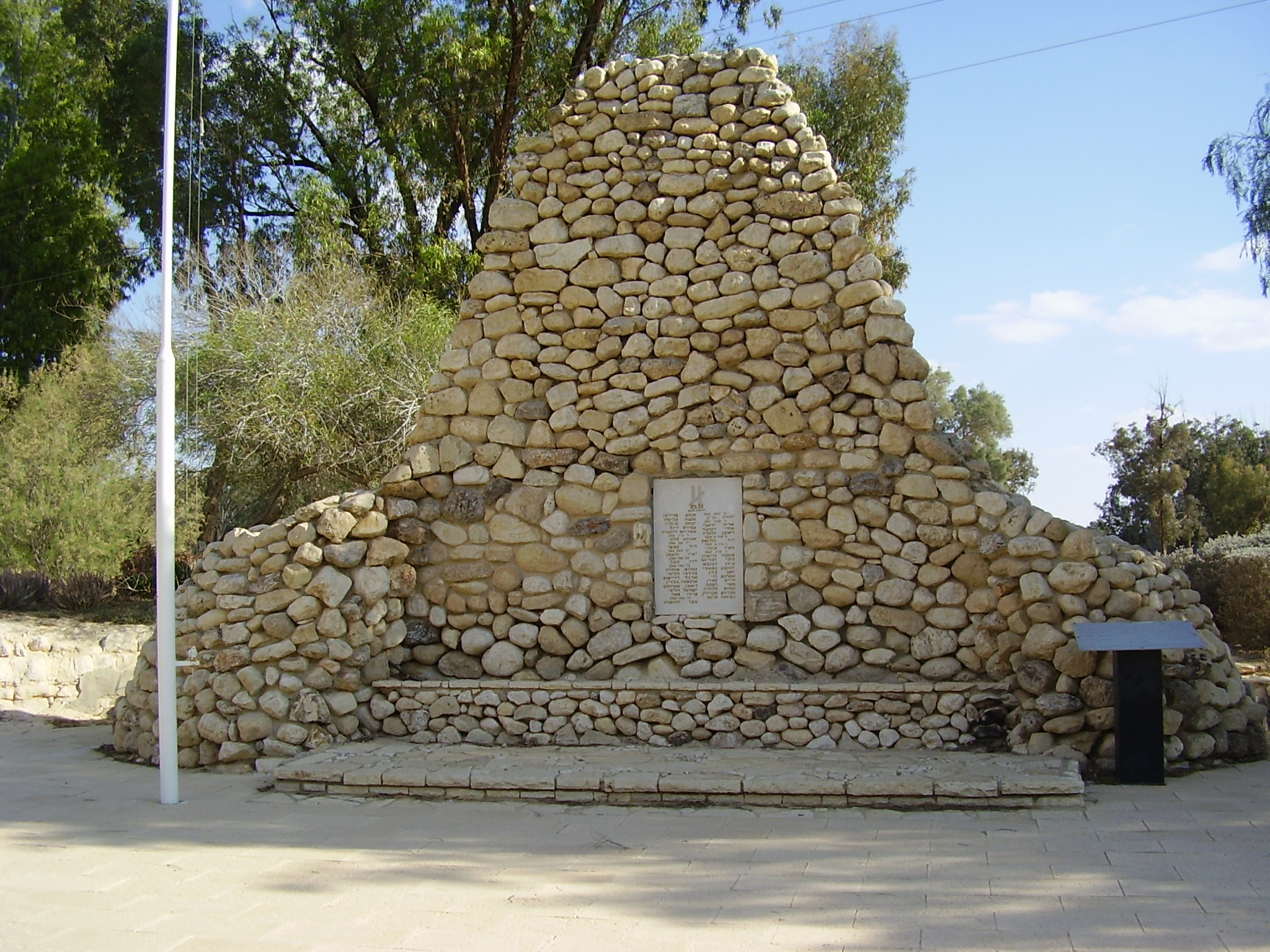 war memorial in bir asluj, israel גלעד לנופלים באיזור ביר עסלוג' (באר משאבים) במלחמת העצמאות